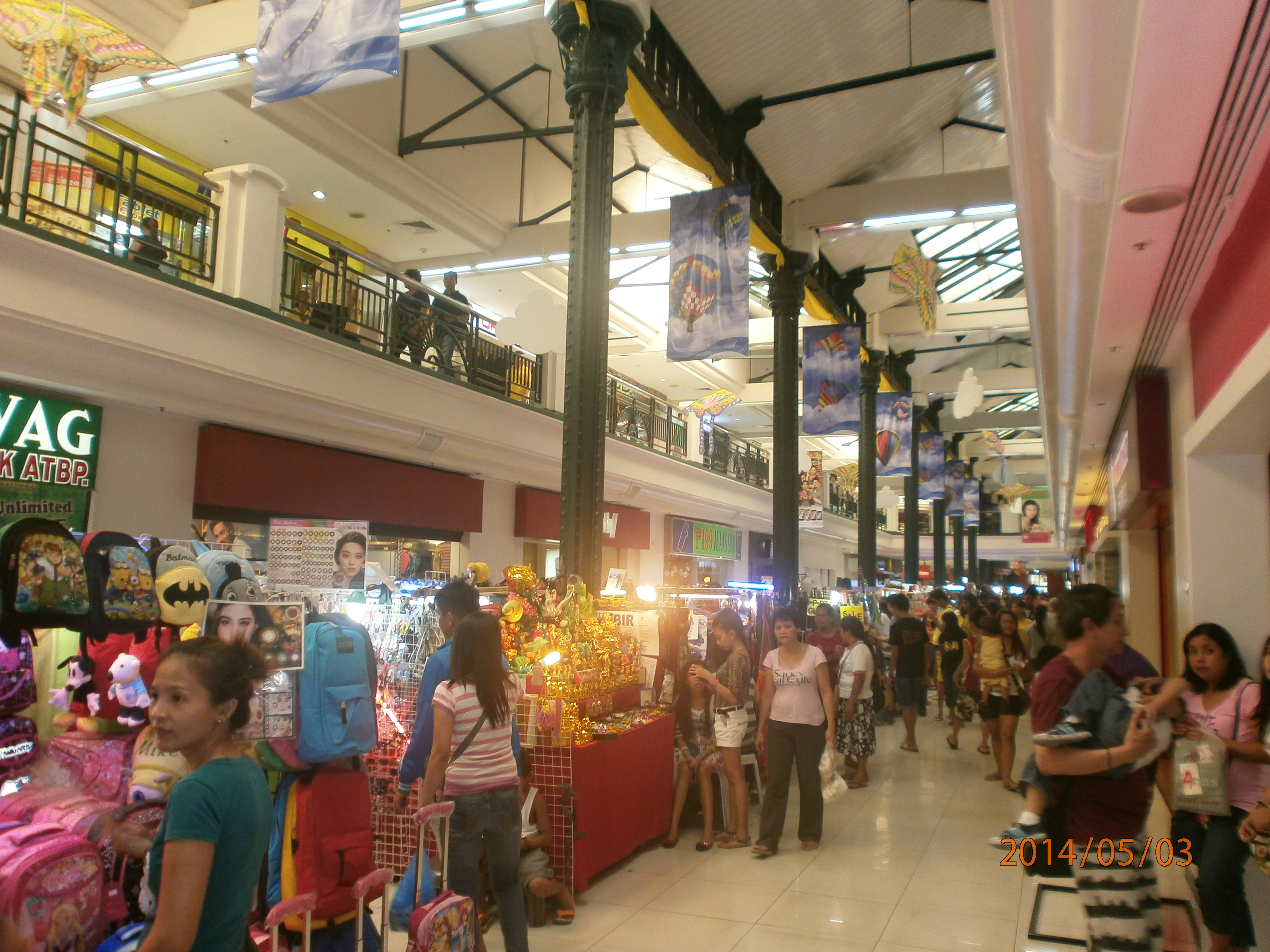 Commercial